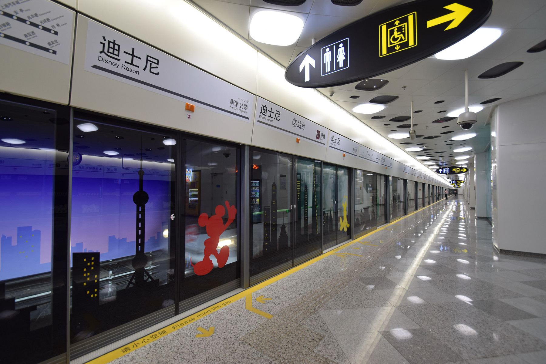 Line 11 Platform & Platform Screen Doors of Disney Resort Station, Shanghai Metro